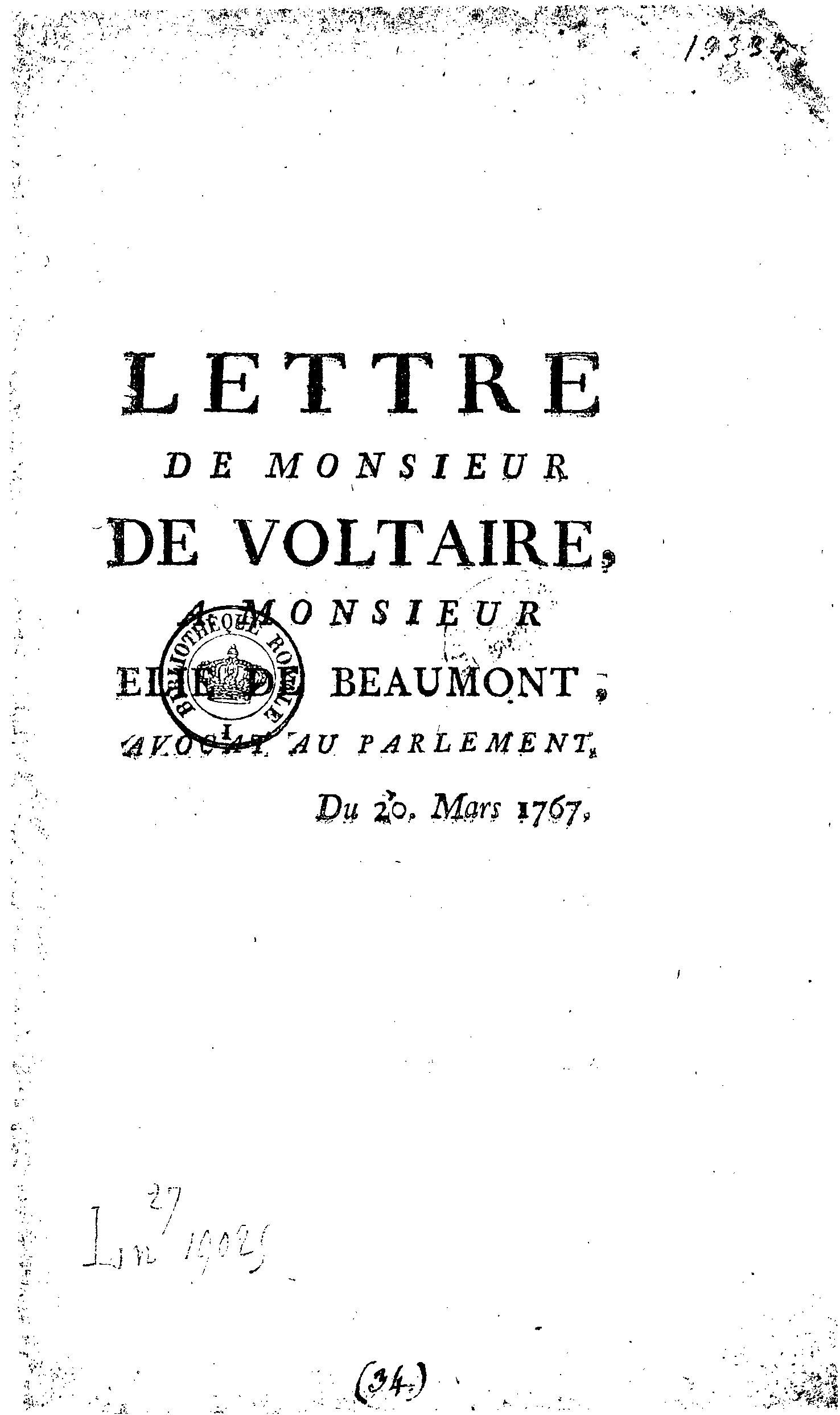 Lettre de M. de Voltaire à M. Élie de Beaumont, avocat au Parlement, du 20 mars 1767. A Letter addressed by Voltaire to the French attorney Jean-Baptiste-Jacques Élie de Beaumont reading the Affaire Sirven, involving French Protestants unfairly prosecuted for the suicide of one their own.